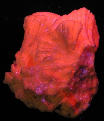 Kutnohorite Locality: Wessels Mine (Wessel's Mine), Hotazel, Kalahari manganese fields, Northern Cape Province, South Africa (Locality at ) Size: 6 x 5.4 x 4.5 cm. A lovely cluster of beautiful pink Kutnohorite crystals, showing its classic fan-shaped habit in cross-section. The largest fan is 3 cm in length, and the specimen has excellent fluorescence. A very fine piece. Ex. Charlie Key stock.